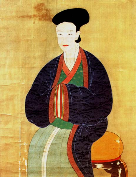 Portrait of Lady Jo Ban (1341-1401). This artwork is believed to be from the late Goryeo Dynasty (918-1392).